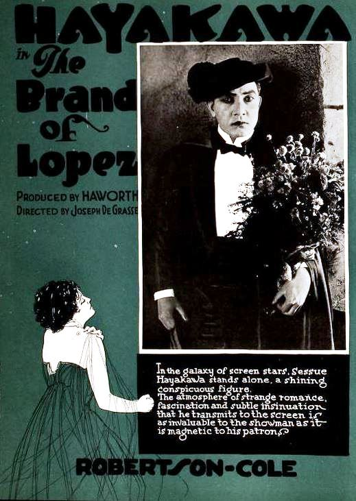 Ad with Sessue Hayakawa in the American film The Brand of Lopez (1920), page 2834 of the March 27, 1920 Motion Picture News.